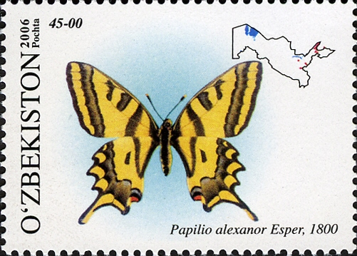 Stamps of Uzbekistan, 2006